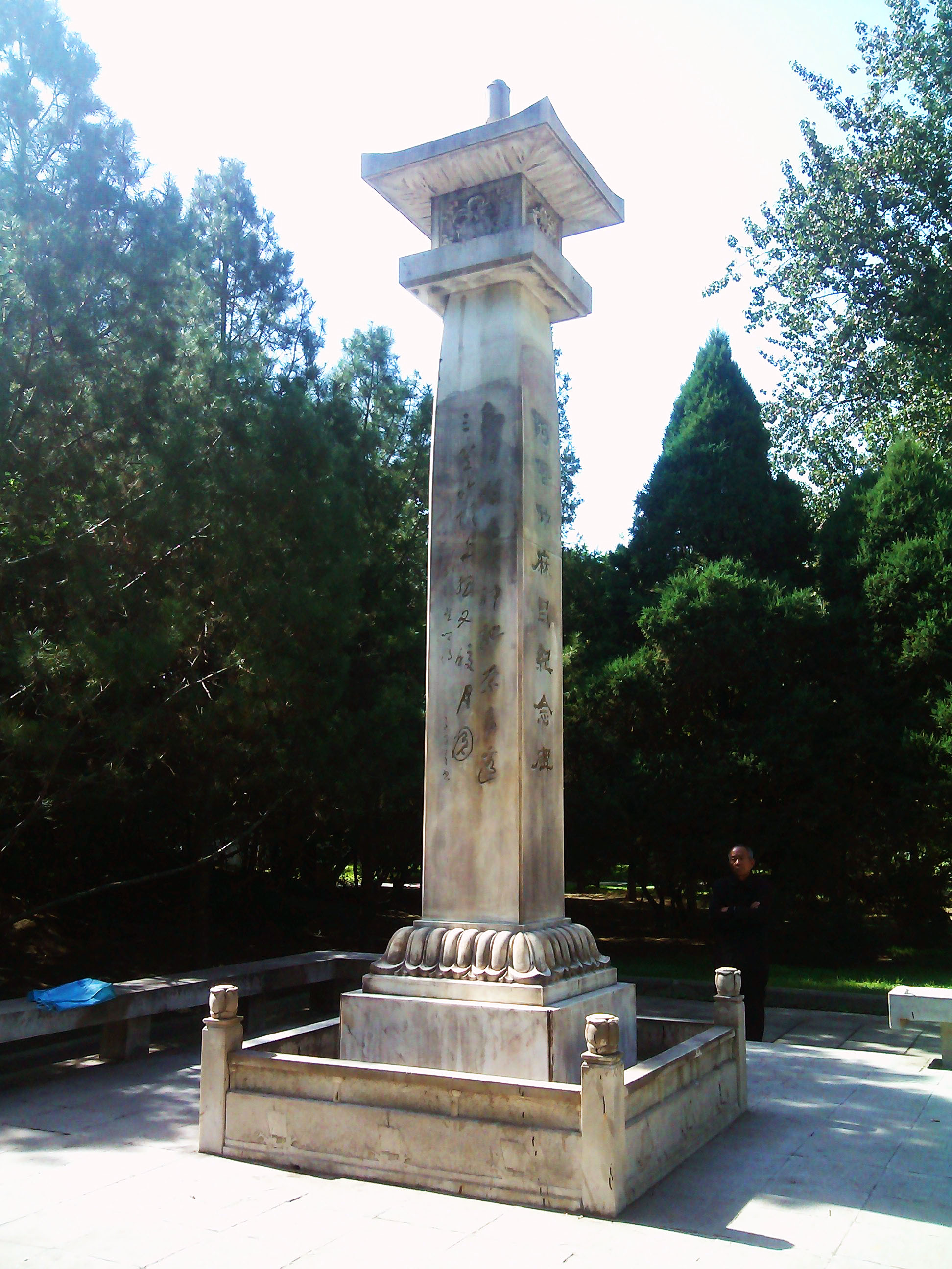 a picture of stained Abe no nakamaro's memorial tower in Xi'an, China